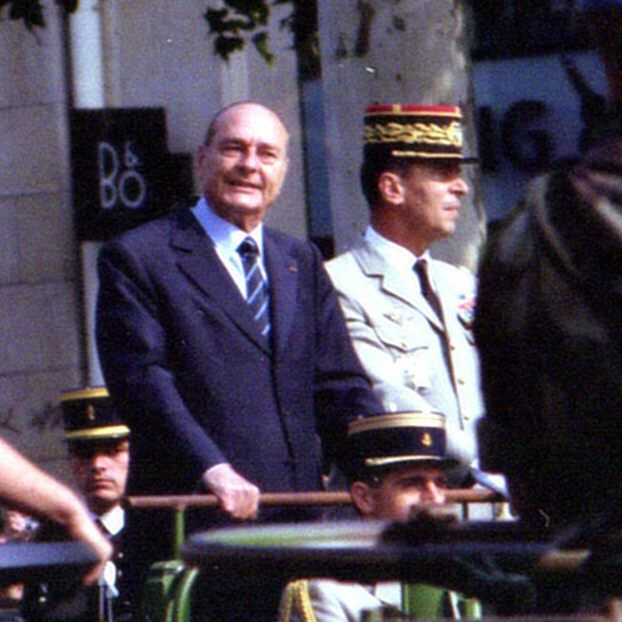 French president of the Republic Jacques Chirac and General Xavier de Zuchowicz, military governor of Paris.